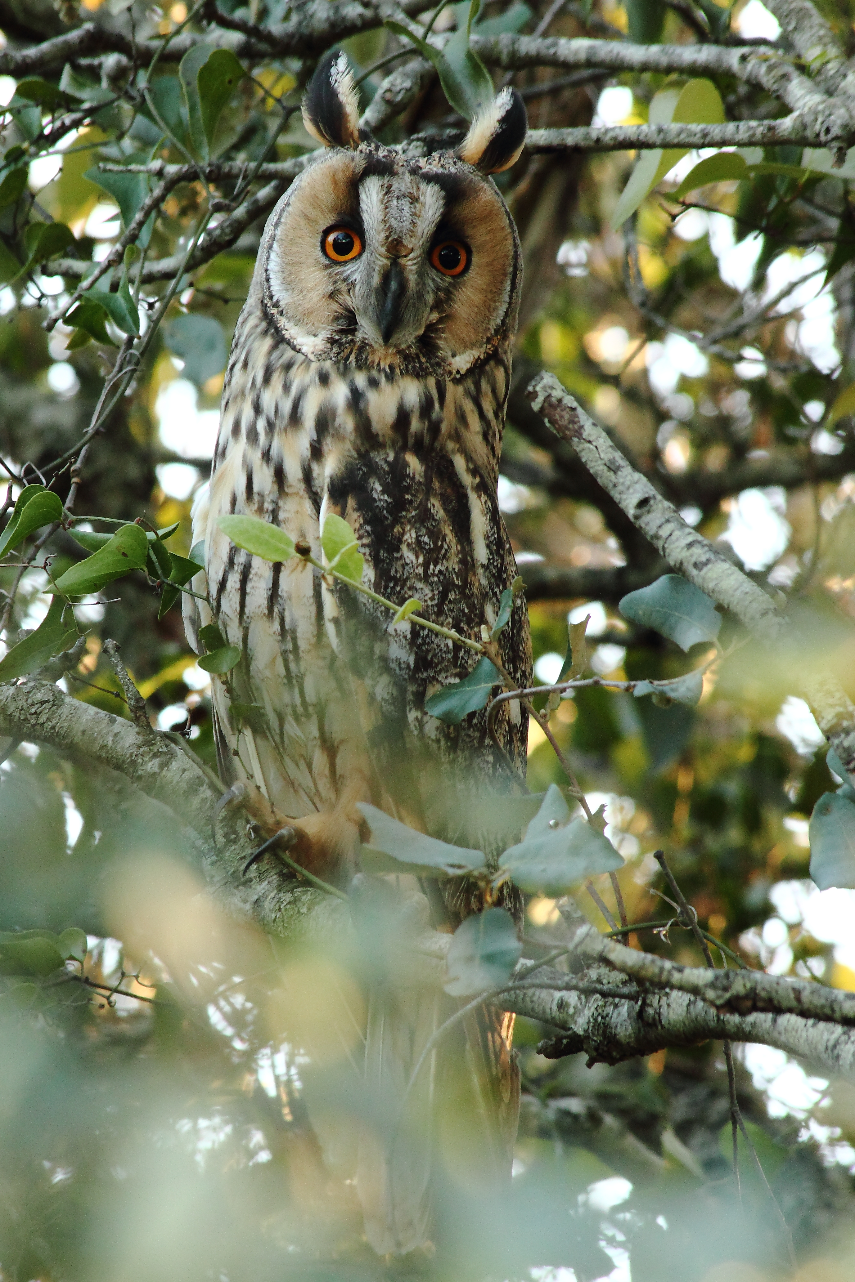 Long-eared Owl